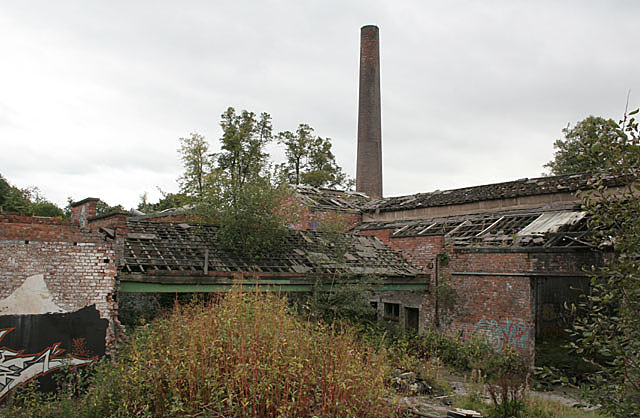 Cheadle Lower Mill Originally a typical water-powered cornmill, the site was successively developed to become a Bleach Works, a laundry, a detergent factory and finally a ruin. The place was in use until 1993 so this picture gives an indication of how quickly dereliction can set in. The chimney is the only untouched element!